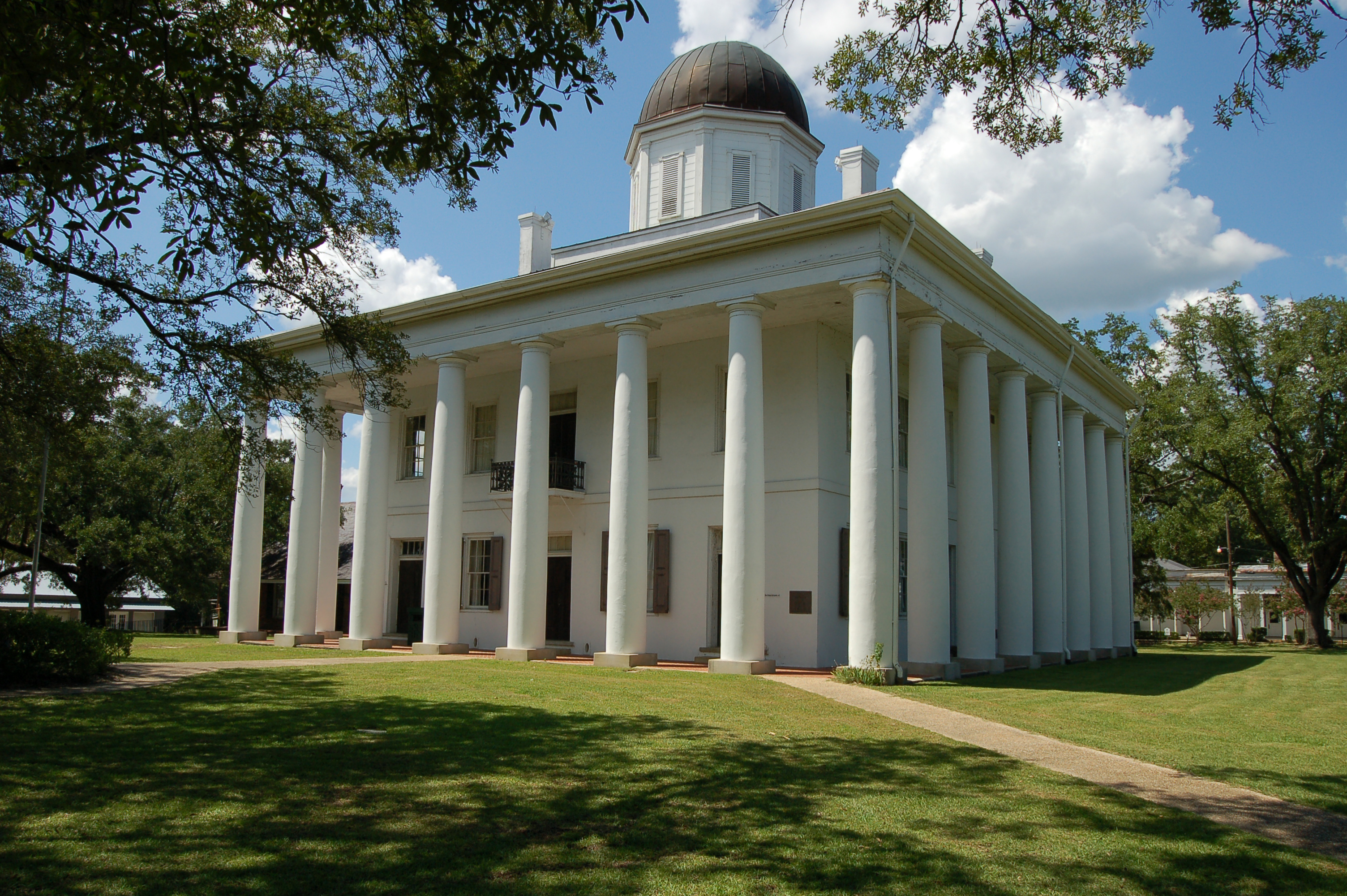 East Feliciana Parish Courthouse, circa 1840, Greek Revival style courthouse, Clinton, Louisiana, USA